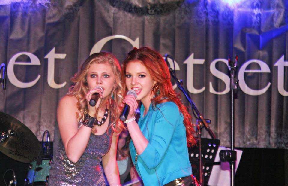 Singers Tori Little (left) and Avery Eliason